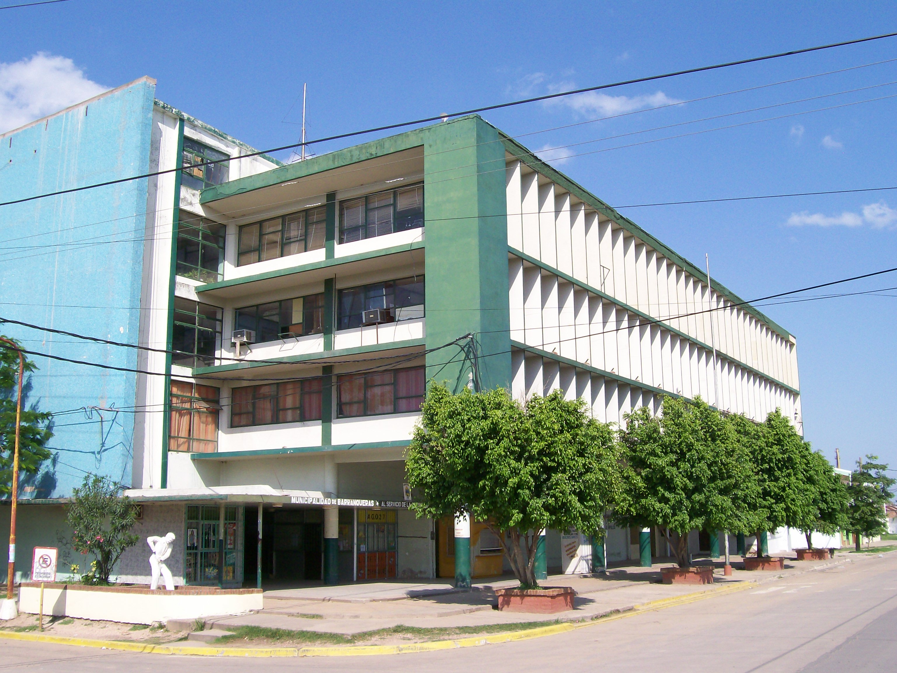 Barranqueras city Municipality (town hall), Chaco province, Argentina.